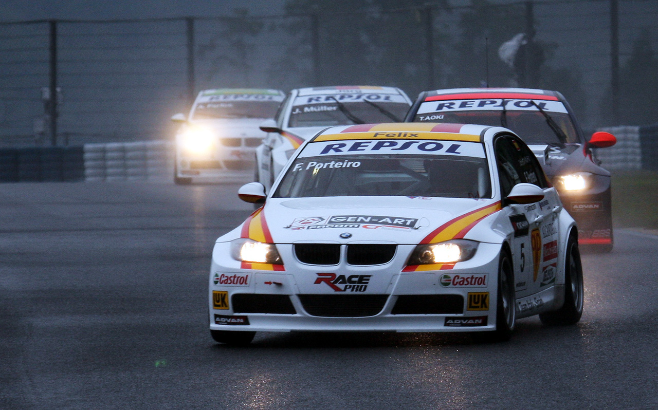 Félix Porteiro (BMW Team Italy-Spain) driving the BMW 320si WTCC car, in free practice at the 2008 WTCC Race of Japan.